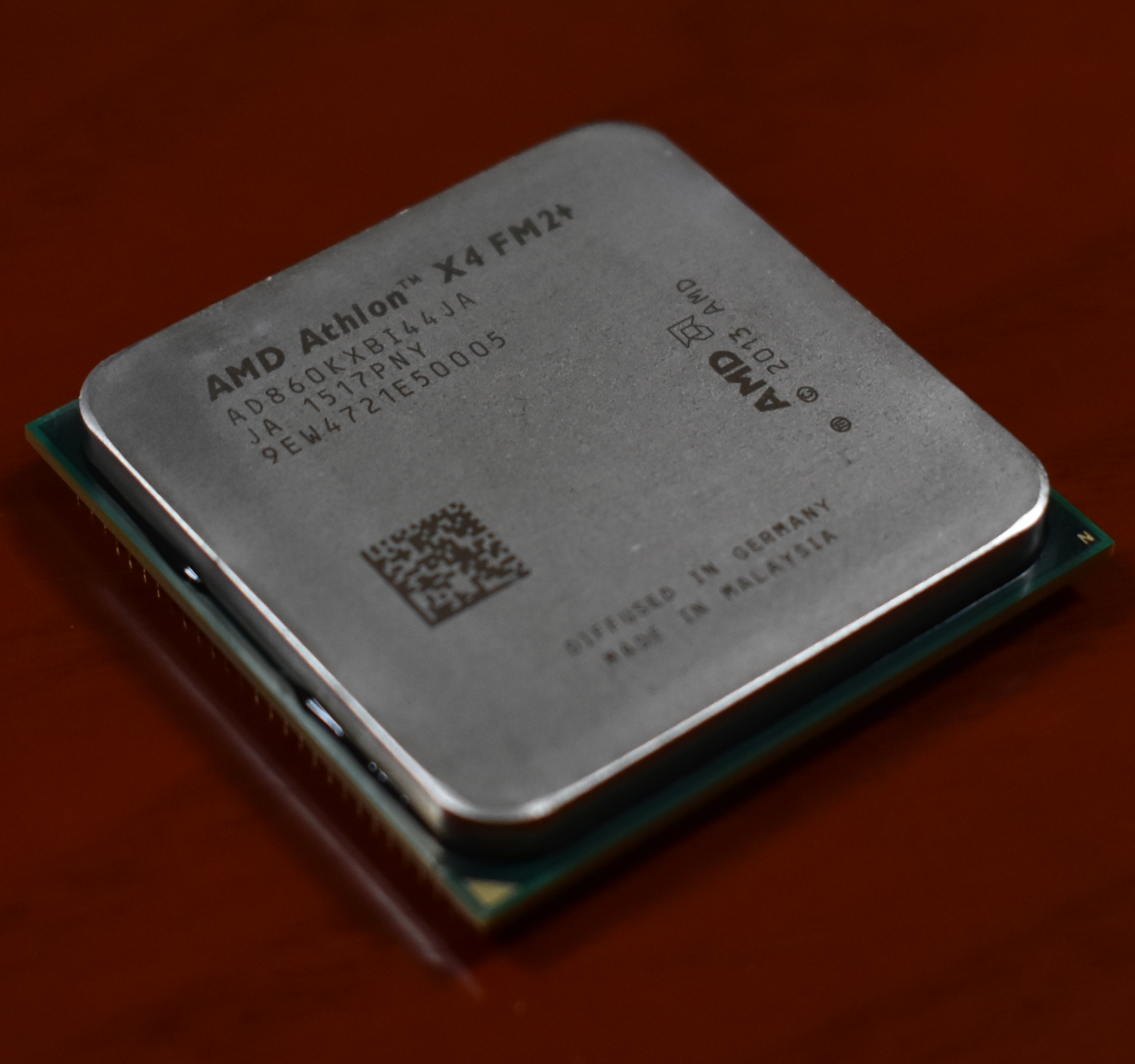 AMD Athlon X4-860K